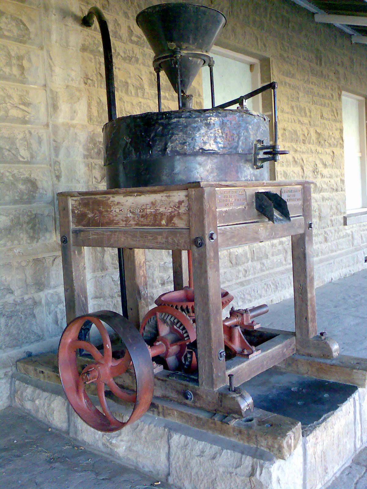 Grain mill at Dordrecht, Eastern Cape. Note bevel gears and pulley for flat belt driven by stationary engine.